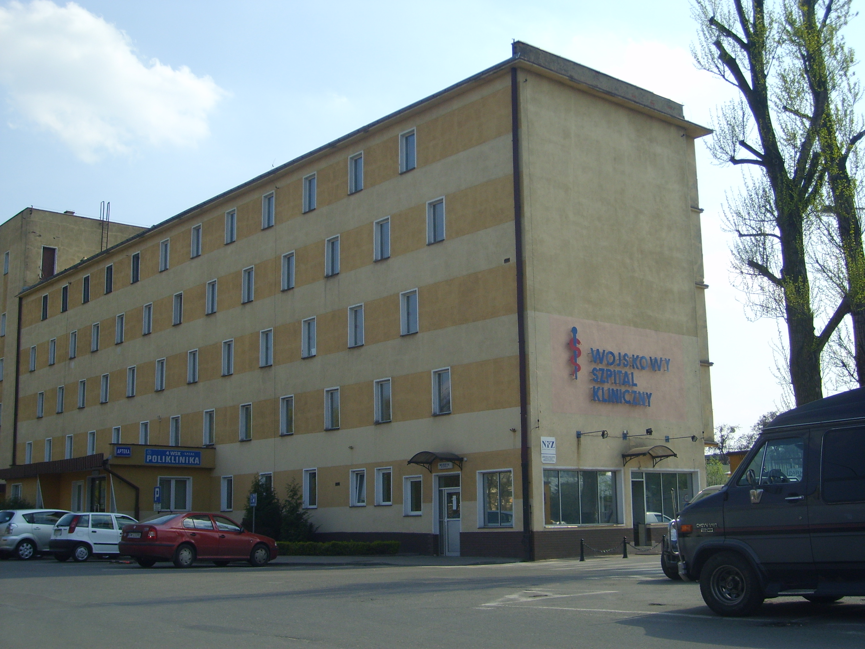 Military Clnical Hospital in Wrocław - admission room, main entry